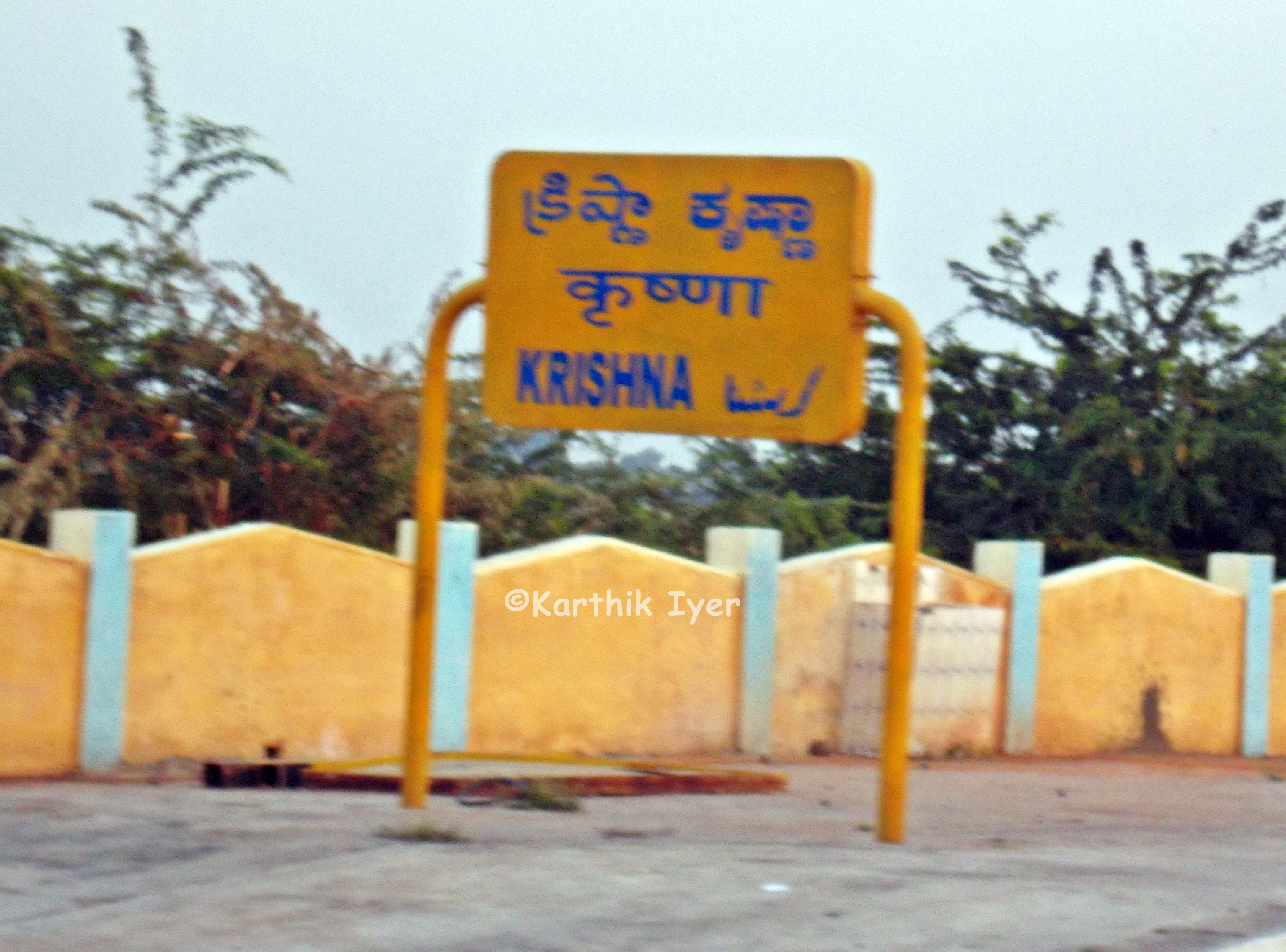 Krishna Railway Station Board.